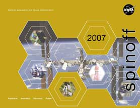 Spinoff is NASA's annual premier publication featuring successfully commercialized NASA technology. For more than 40 years, the NASA Innovative Partnerships Program has facilitated the transfer of NASA technology to the private sector, benefiting global competition and the economy. The resulting commercialization has contributed to the development of commercial products and services in the fields of health and medicine, industry, consumer goods, transportation, public safety, computer technology, and environmental resources. Since 1976, Spinoff has featured between 40 and 50 of these commercial products annually. Shown here is the cover of Spinoff 2007.